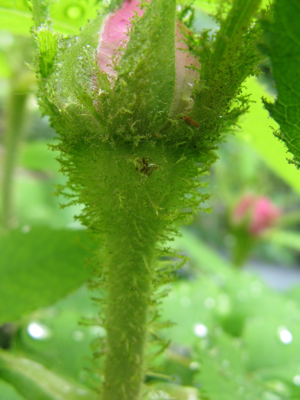 Rosa cultivar 'Gloire des Mousseux', detail of moss